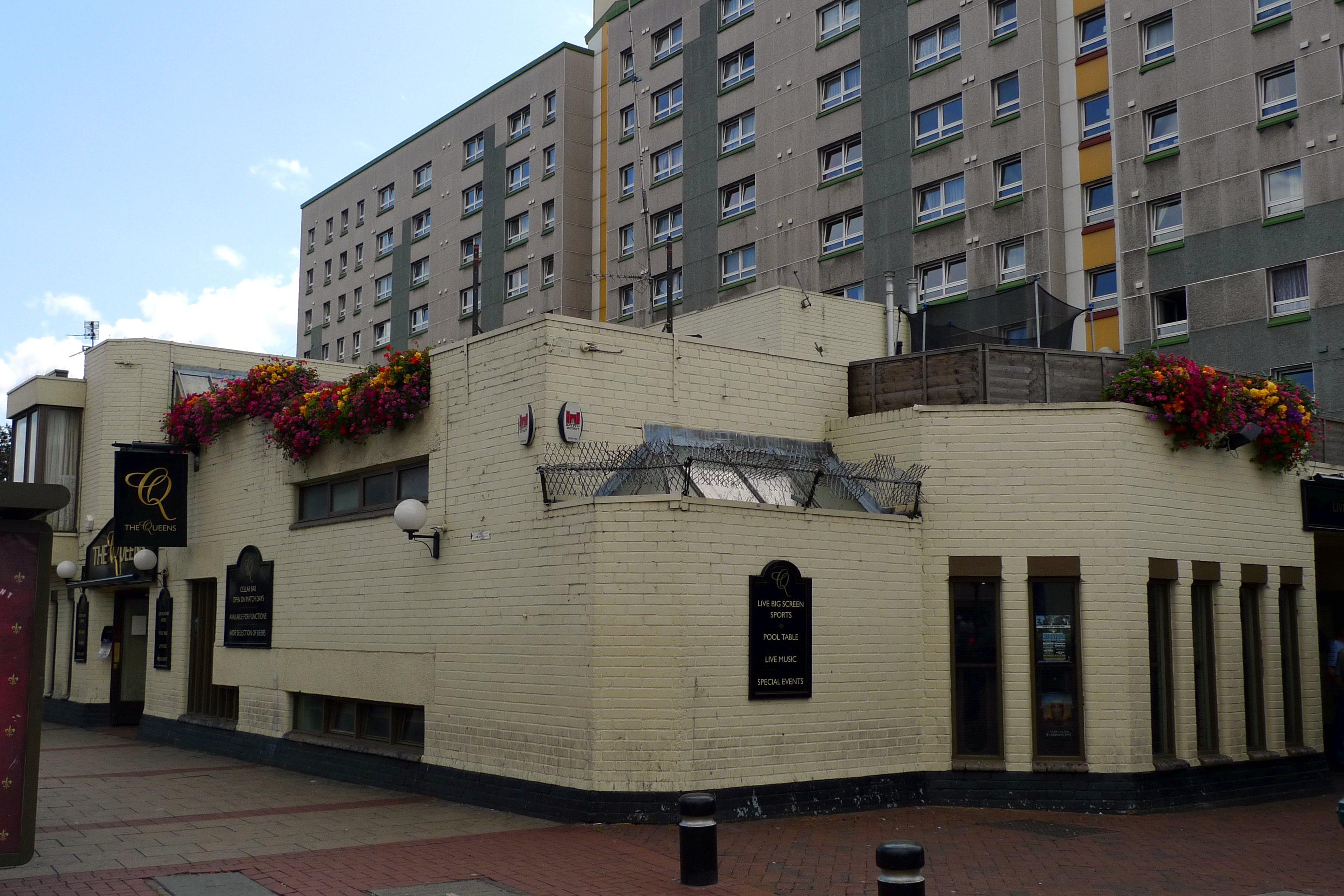 Looks like a bunker, all the better to deal with the football fans, perhaps? Address: 410 Green Street. Owner: Taylor Walker (former). Links: Beer in the Evening